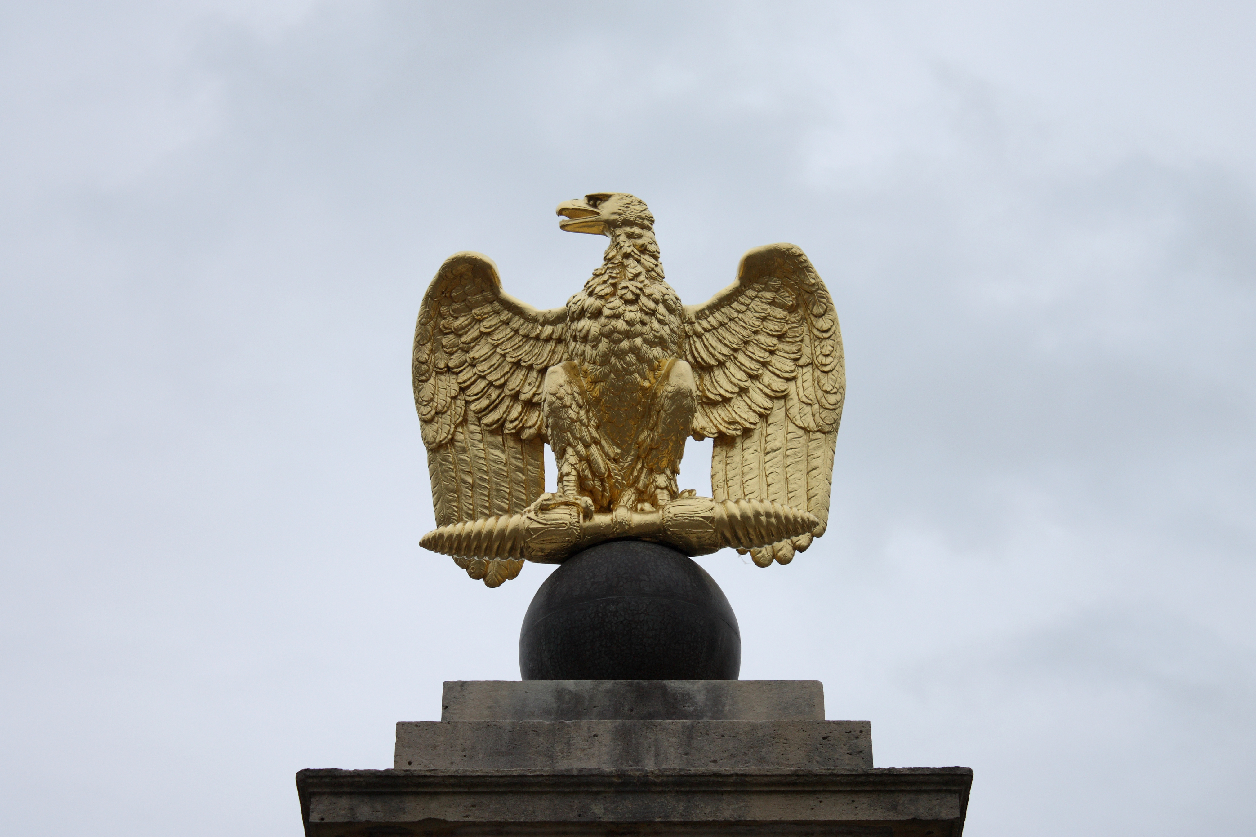 Imperial eagle on the main portal of the Palace of Fontainebleau.